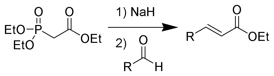 Description: Reaction scheme of the Horner-Wadsworth-Emmons reaction. Author, date of creation: selfmade by ~K, 21 January 2006. Source: - Copyright: Public domain. (PD) Comments: high-resolution b/w PNG; ChemDraw / The GIMP.